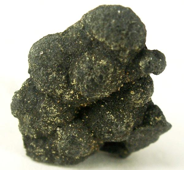 Argyrodite Locality: Himmelsfürst Mine, Brand-Erbisdorf, Freiberg District, Erzgebirge, Saxony, Germany (Locality at ) Size: 1.0 x 0.9 x 0.3 cm. Argyrodite is one of the rarest collectible silver species to obtain in a good display specimen. Argyrodite is an extremely rare GERMANIUM-containing silver sulfosalt and occurs at its best from this Type Locality (late 1800s) and from Bolivia as well (same era, into the early 1900s). This particular specimen is actually "beautiful" as far as they go, because it has some 3-dimensionality, with the intergrown, botryoidal aggregates. Ex. Edward Braiman Collection to Bill Pinch Collection. Bill X-RAYED it to confirm identity.